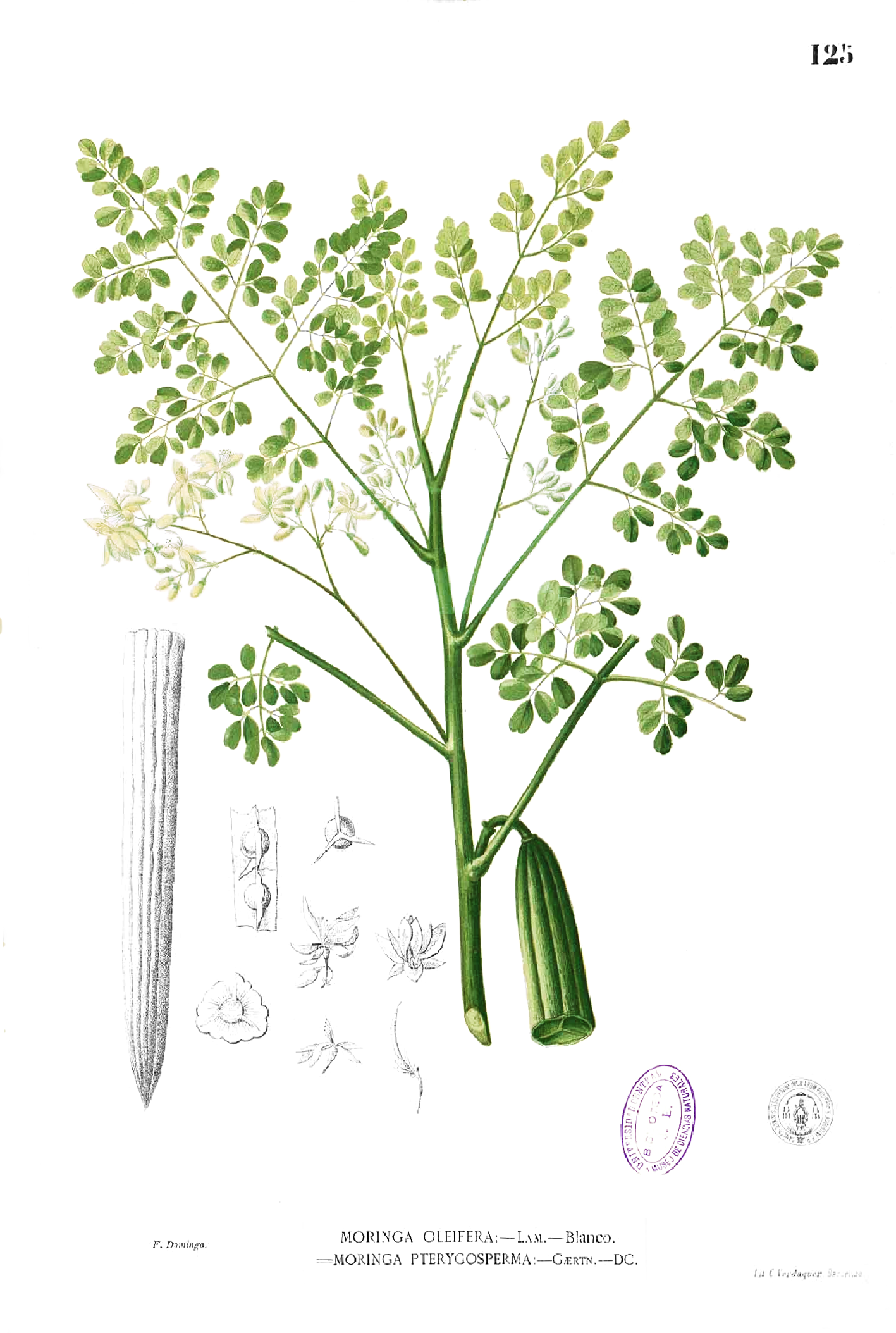 Plate from book